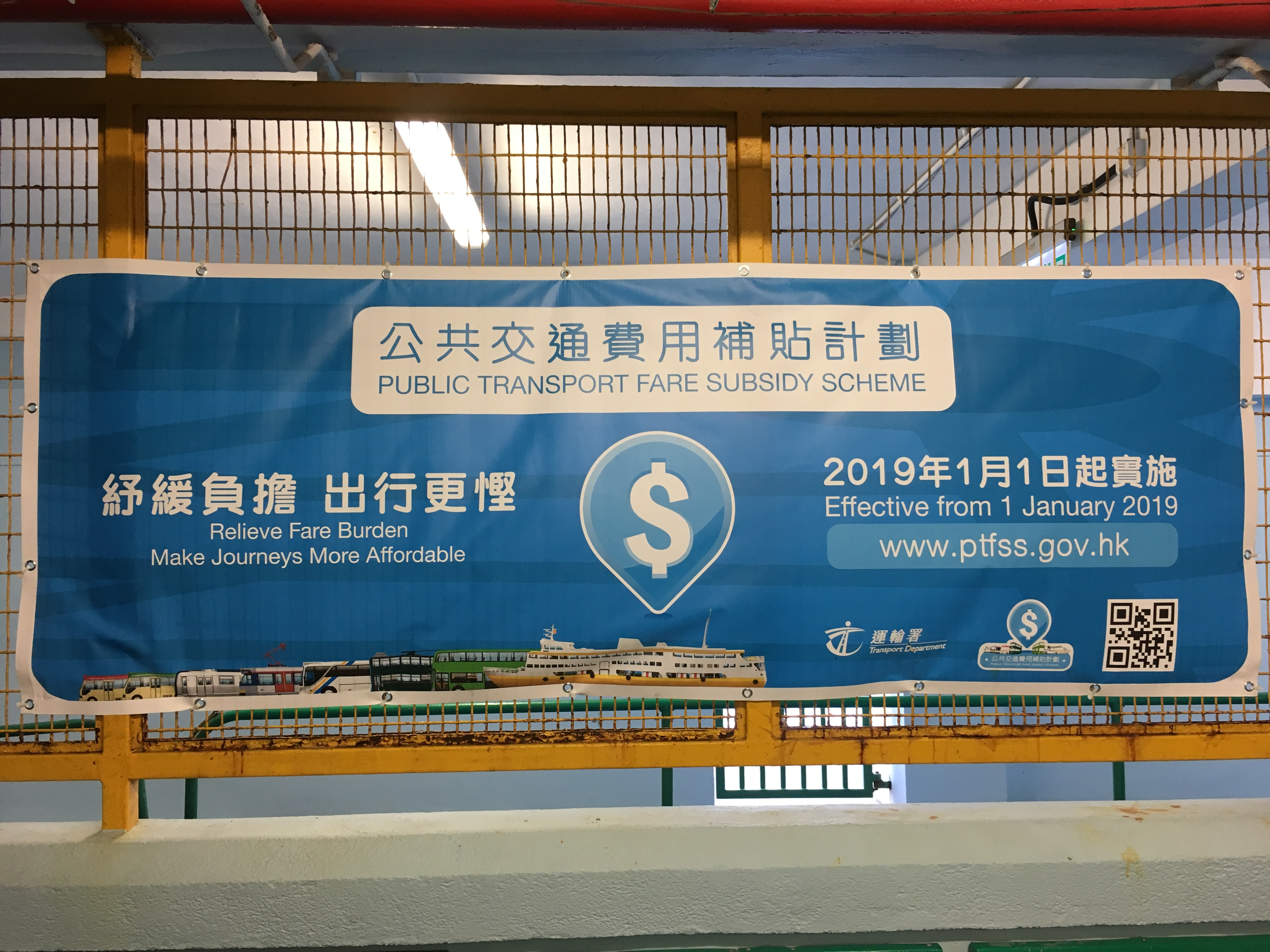 中文（香港）: This photo is taken in North Point East Ferry Pier.